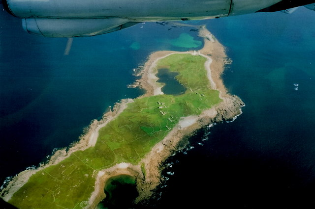 Inishsirrer - NW half of the island looking northwest As seen from an Aer Arann flight preparing to land at Donegal Carrickfin Airport.